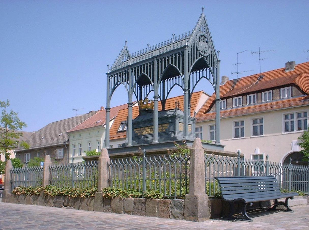 Queen Louise memorial in Gransee in Brandenburg, Germany